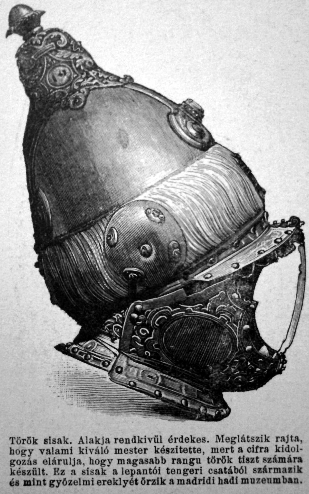 Turkish helmet, battle of Lepanto, book´s illustr. by orig. -Museum in Madrid